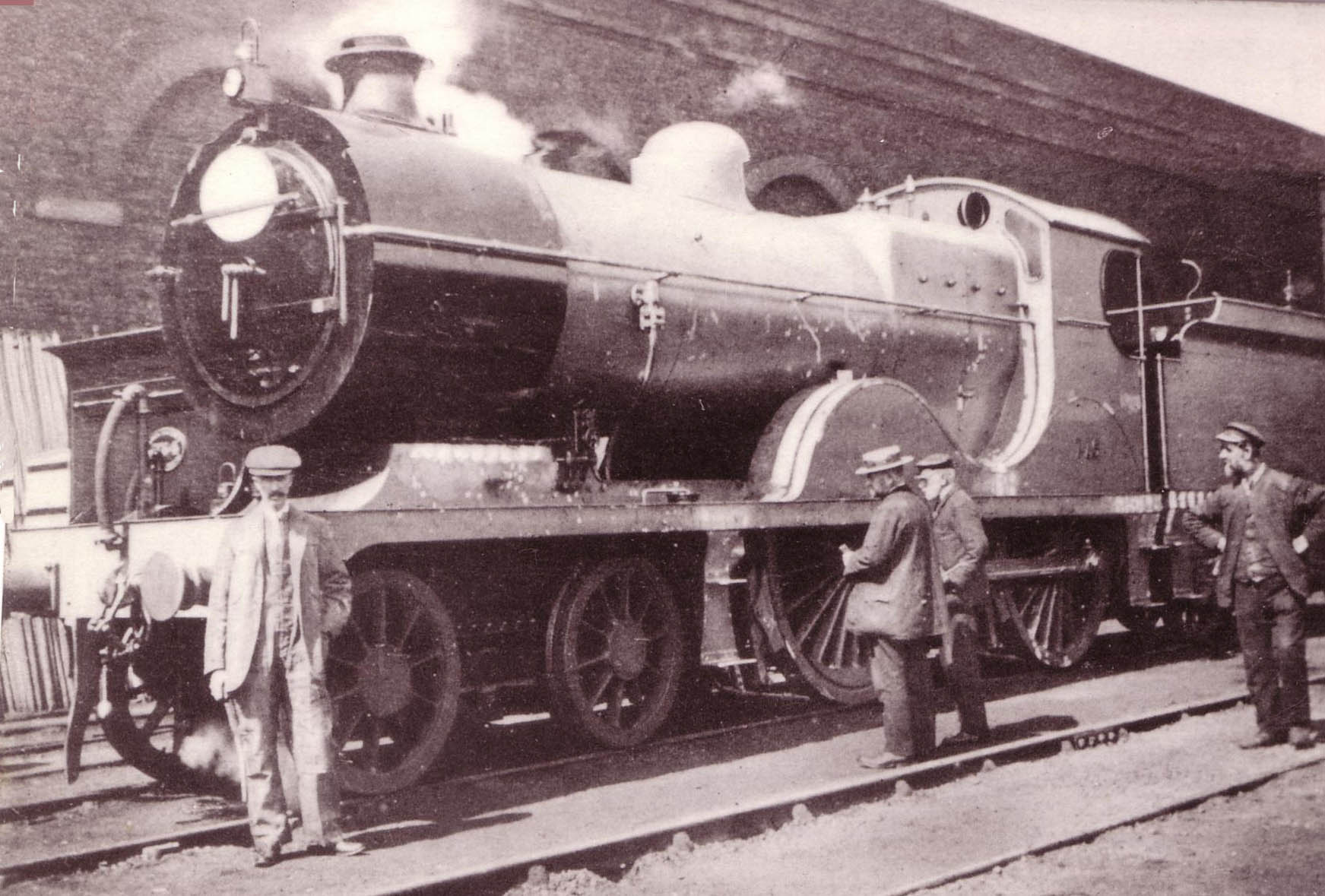 SECR L Class at Ashford shortly after delivery from the manufacturers